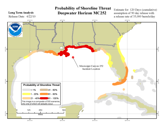 Probability of Shoreline Threat, as of Day 120, for a 33,000 barrels/day release for 90 days by NOAA on Deepwater Horizon oil spill. Published 2010-07-02